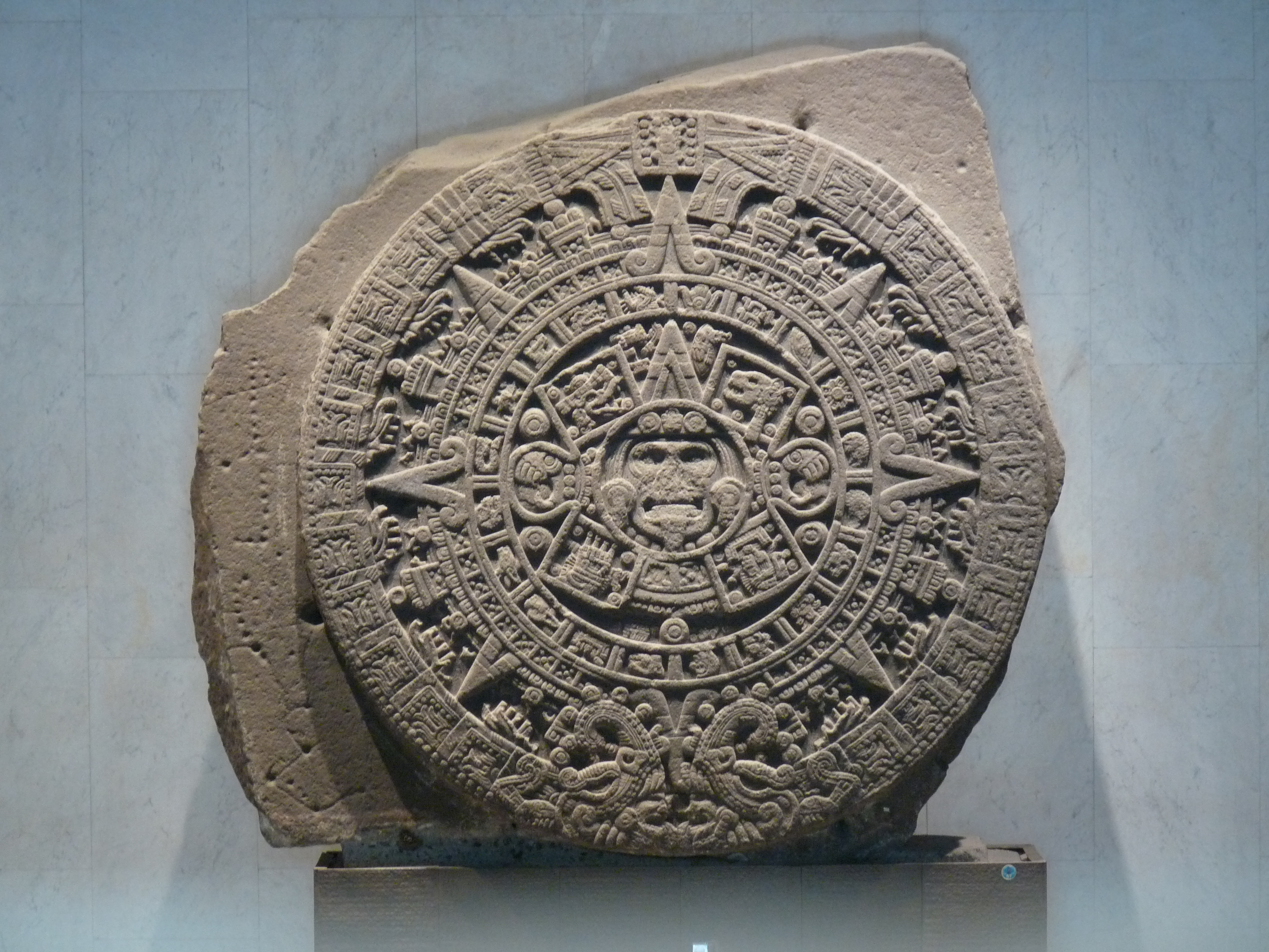 Monolith of the Stone of the Sun, also named Aztec calendar stone (National Museum of Anthropology and History, Mexico City).